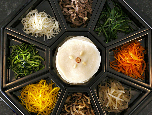 Gujeolpan - the dish of nine delicacies served as part of Korean royal cuisine